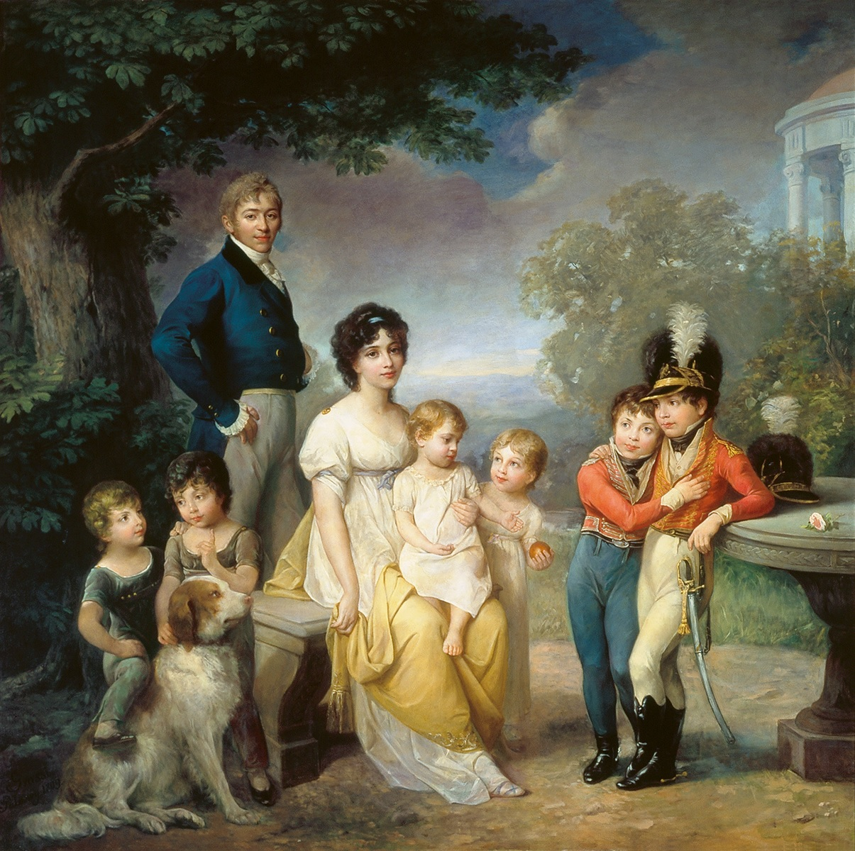 Stanislaw Kostka Zamoyski with his wife, Zofia (née Czartoryska), and their family.